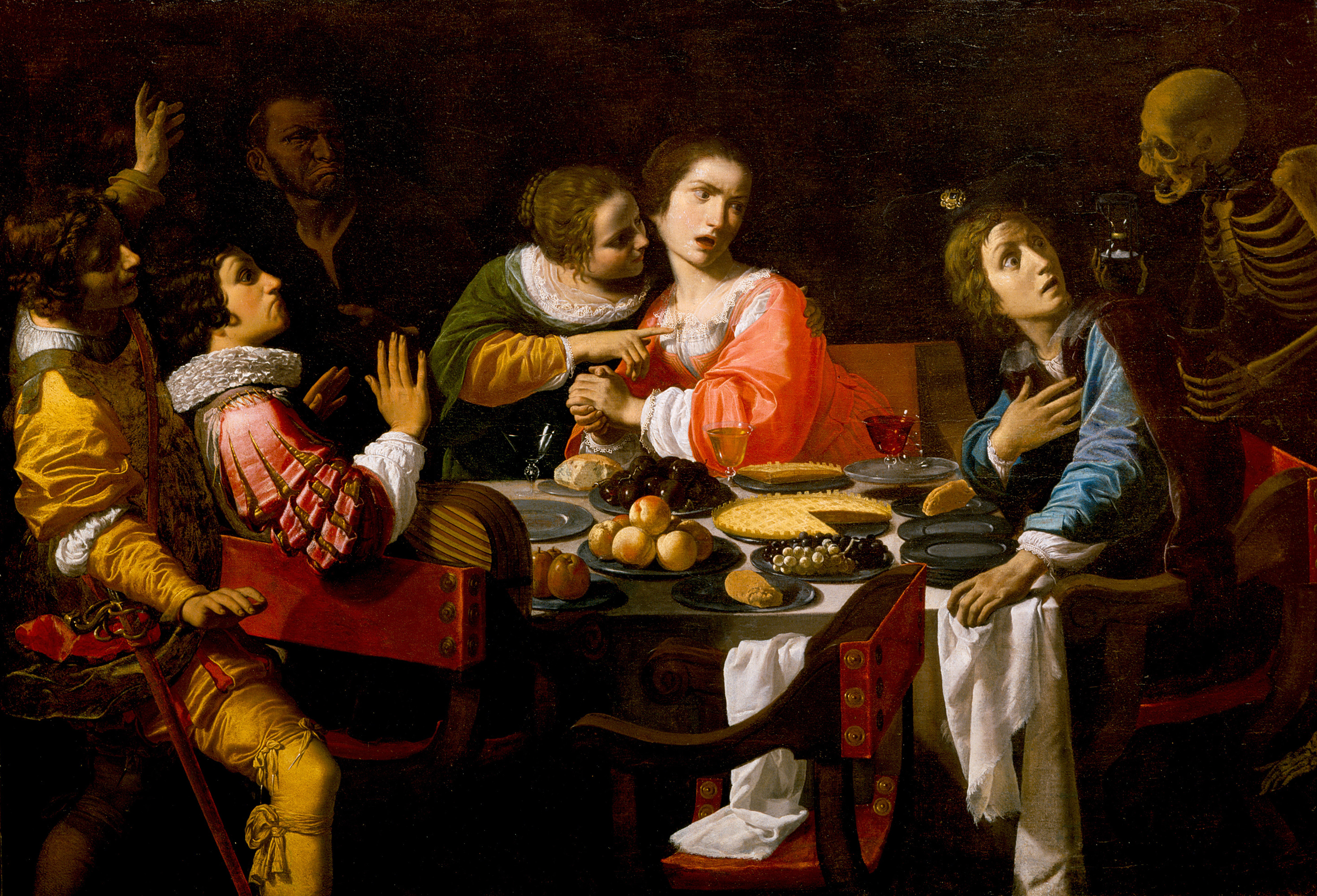 Death Comes to the Banquet Table (Memento Mori)